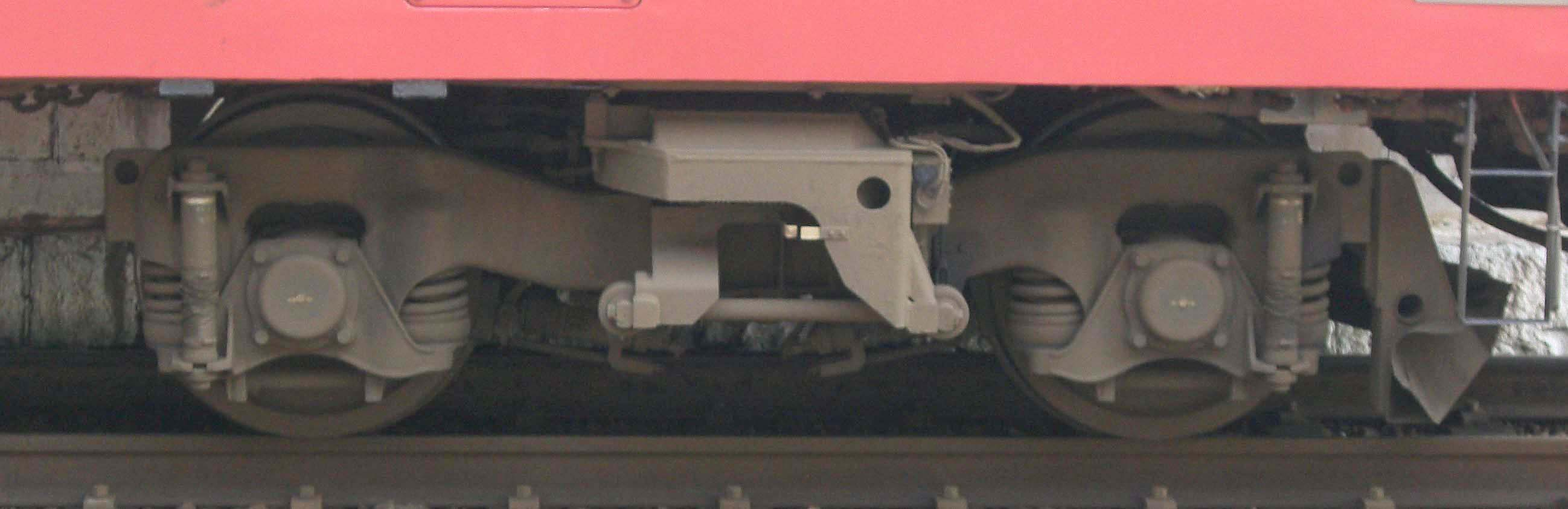 Bogie on JNR117 train at Kurashiki Station, January 3, 2007